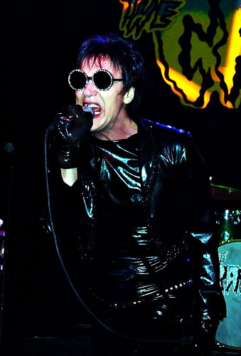 Image of Lux Interior, vocalist of the American psychobilly band, The Cramps